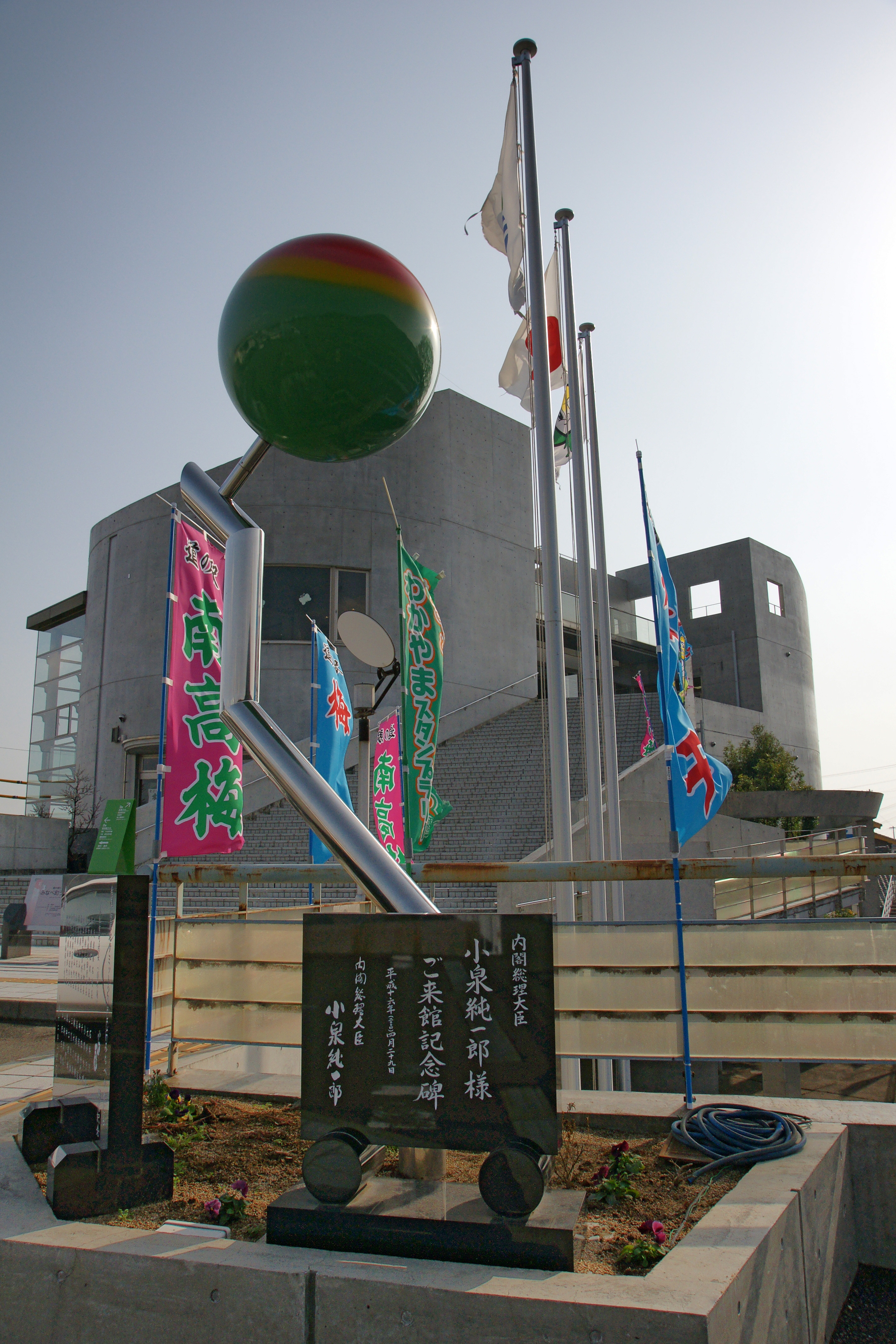 Minabe Ume-shinkokan, Minabe, Wakayama prefecture, Japan